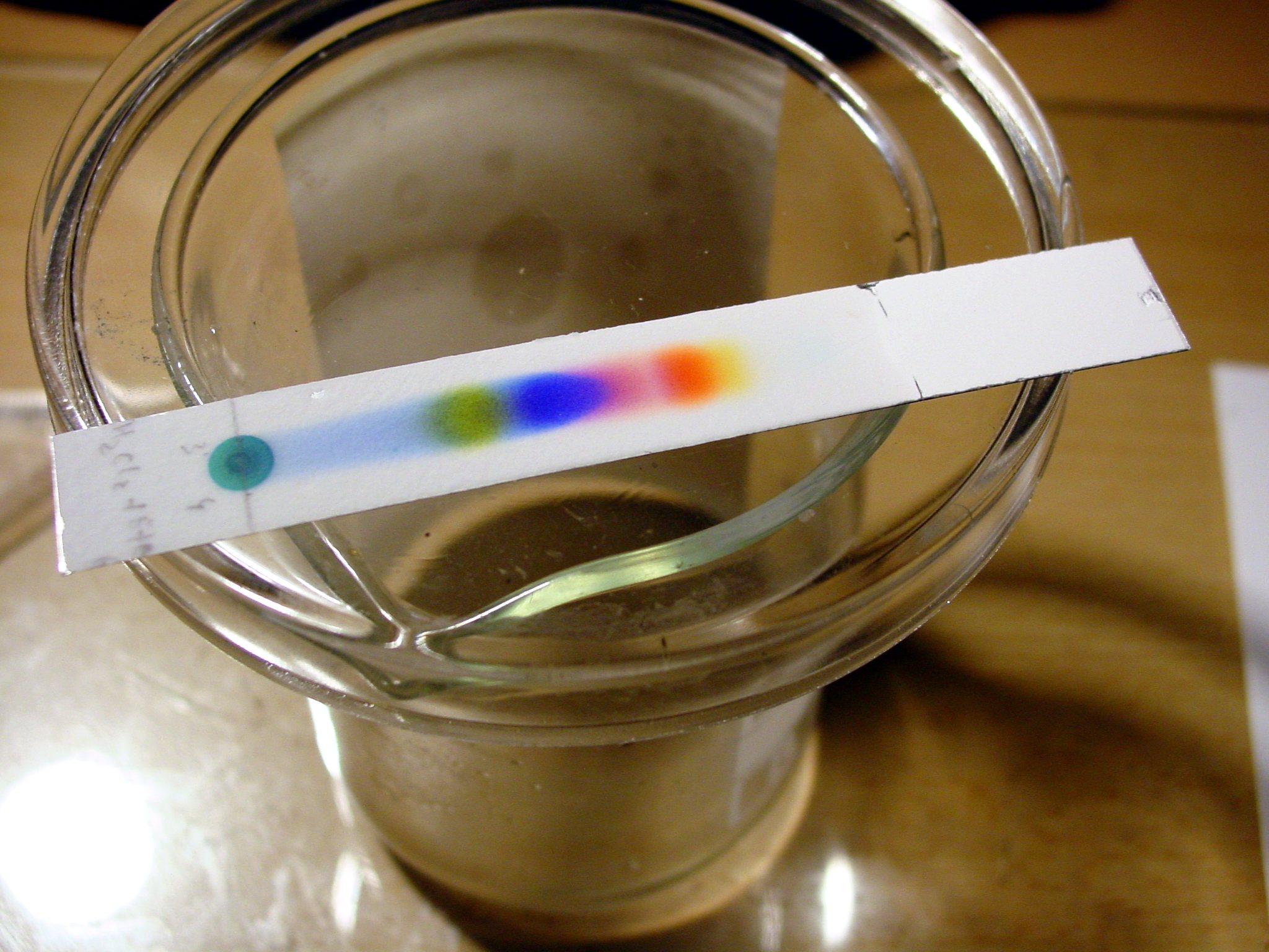 Separation of black ink on TLC plate. I took the photo after experimenting with black ink from permanent marker (Stabilo OHPen universal) and ethanol+water mixture as solvent. Source: see Photos contributed by Natrij